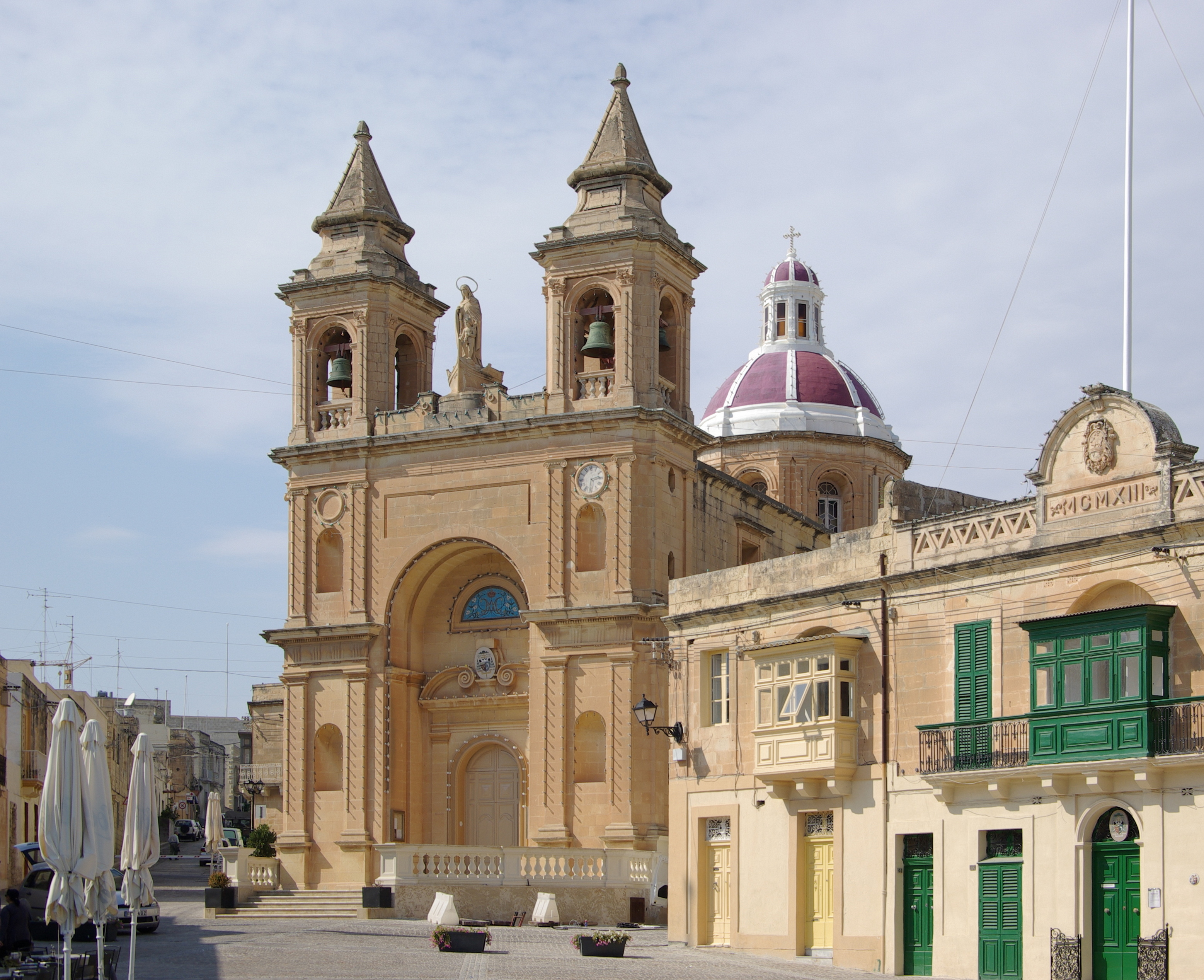 Malta, Marsaxlokk, Pfarrkirche "Our lady of Pompei"